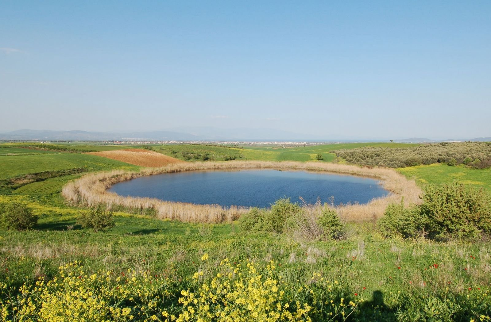 Zerelia lakes (eastern lake), Almyros plain, Magnesia, Greece